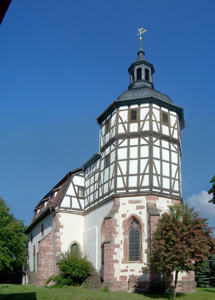 The evangelic church in Gerstungen.